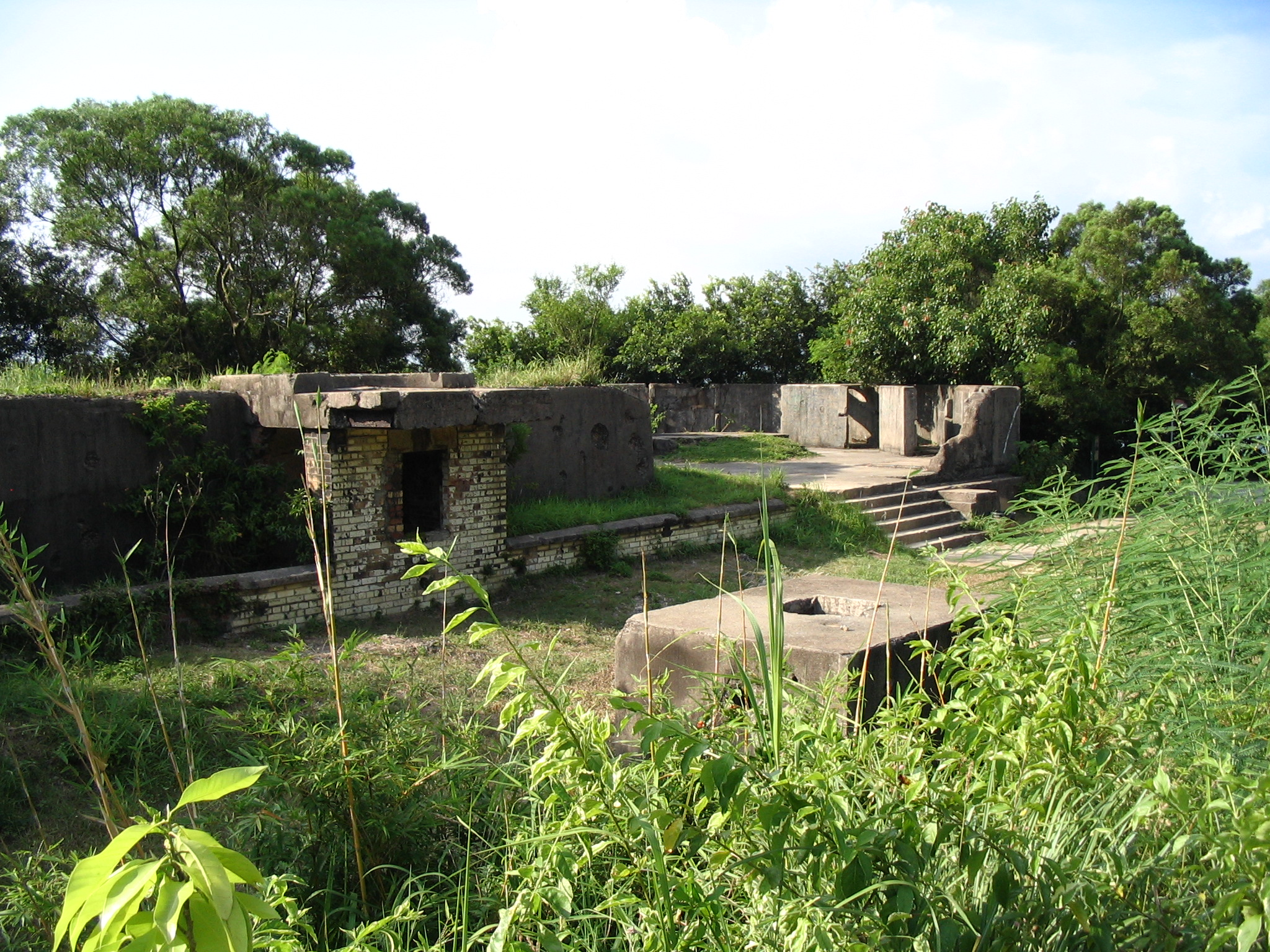 Photo of Lung Fu Shan Pinewood Battery